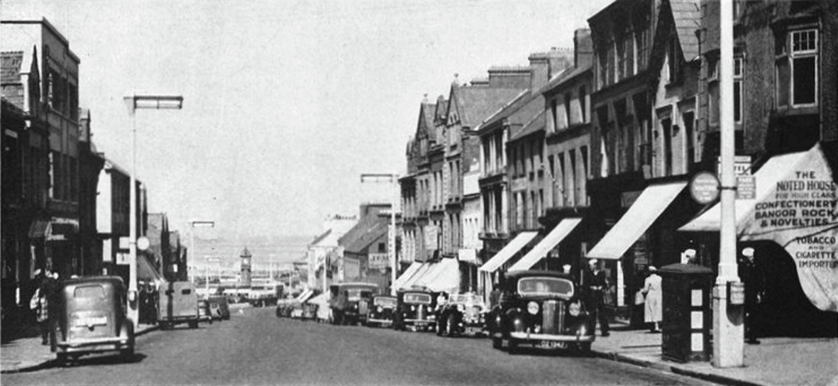 View of a street in Bangor, County Down, Northern Ireland, in 1953. Note the McKee Clock in the background.